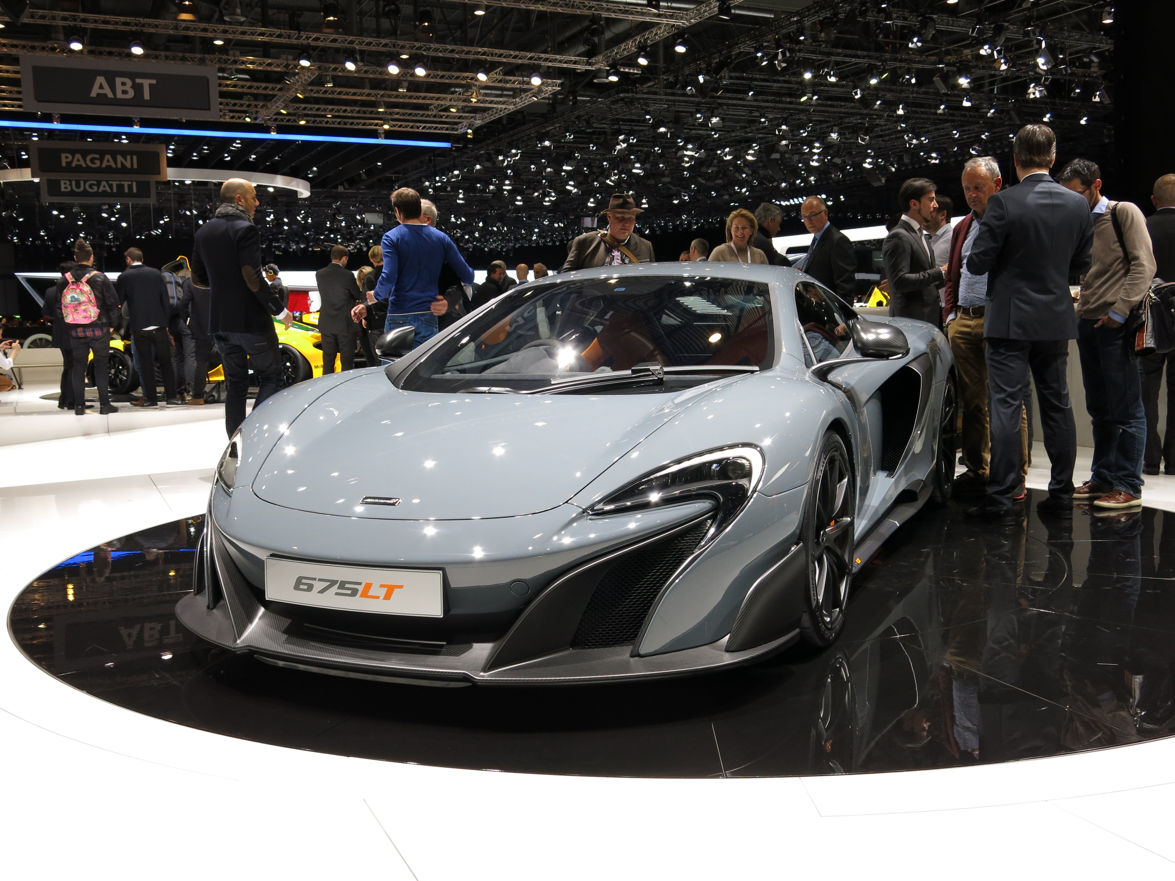 Geneva Motor Show 2015 (photo taken on the first press day)